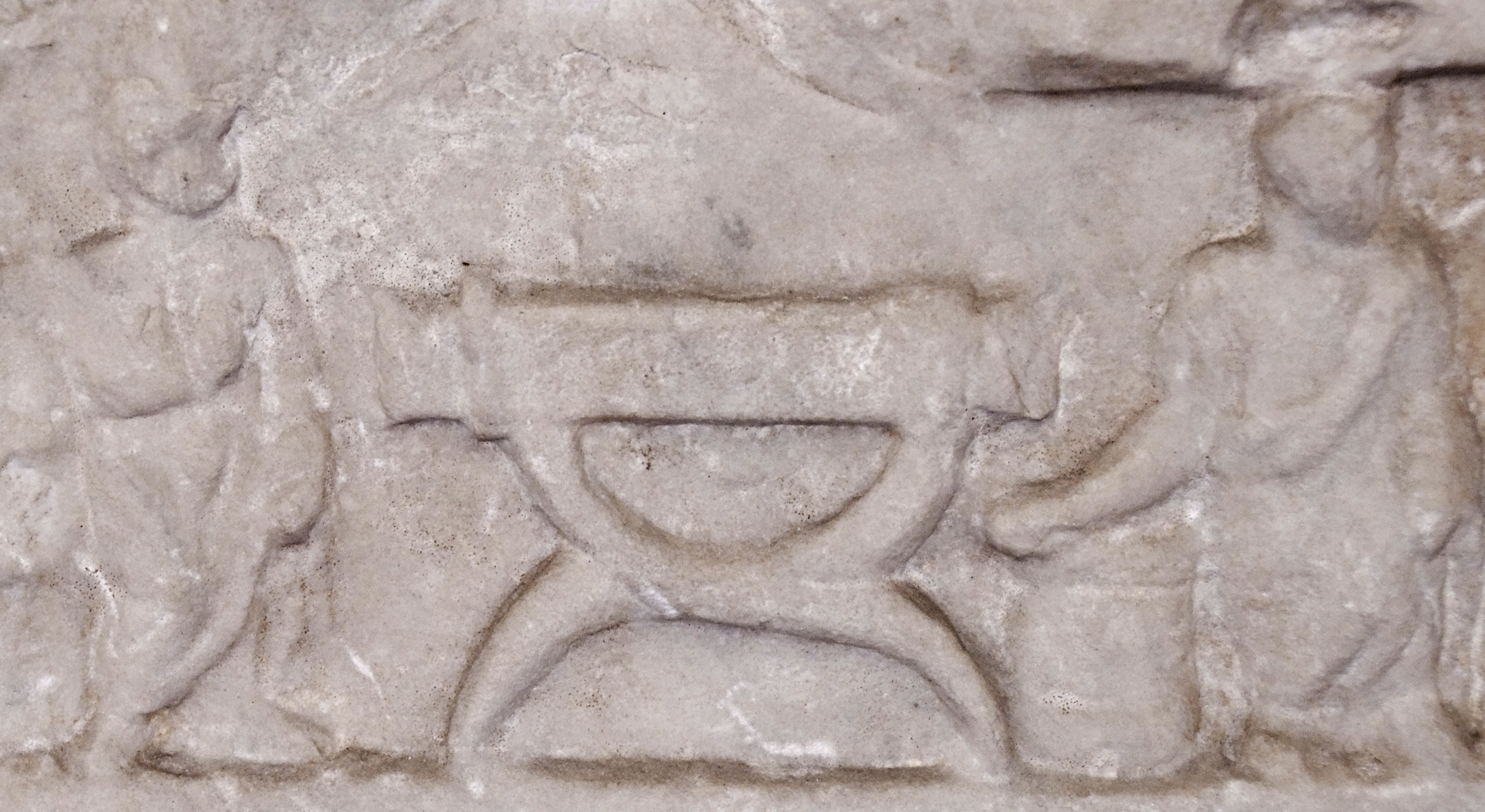 Funerary relief with a sella curulis. Marble, Roman artwork, 50 BC–50 AD. From the Torre Gaia on the Via Casilina, Rome.